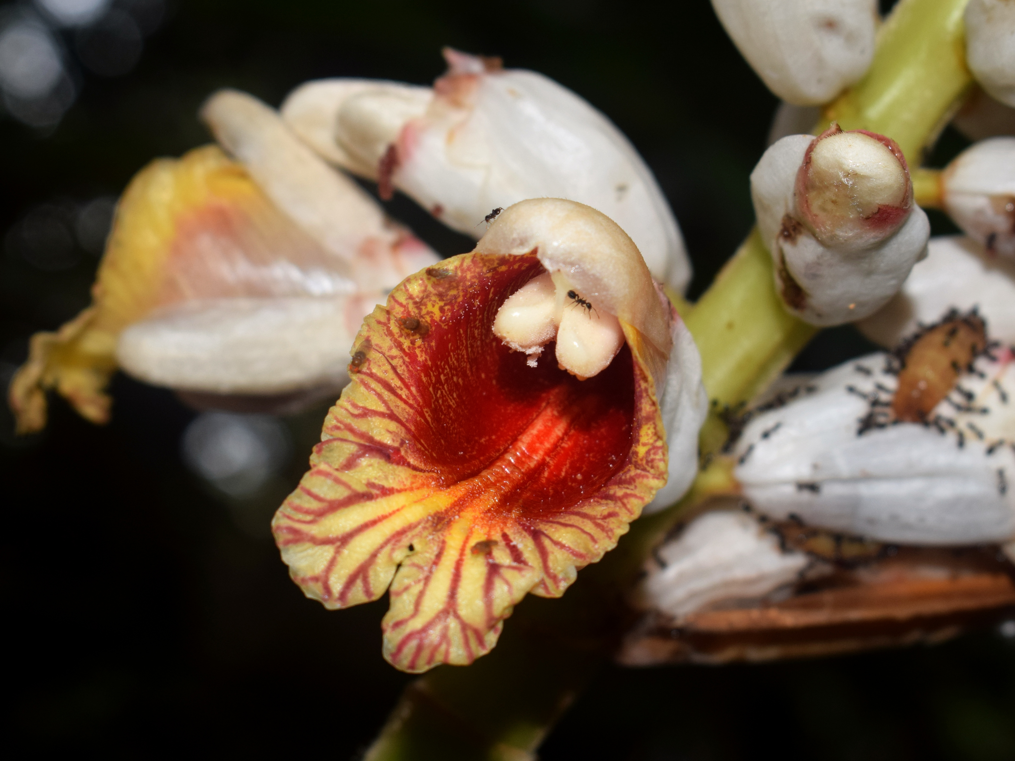 Alpinia (Catimbium) malaccensis; flowers. From Bogor, West Java, Indonesia.